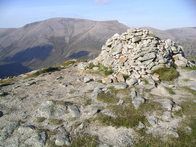 The Devil's Point : Munro No 130. The 1004m summit cairn. This mountain is otherwise known as Bod an Deamhain. The mountain in the background on the other side of the Lairig Ghru is Ben Macdui (1309m).